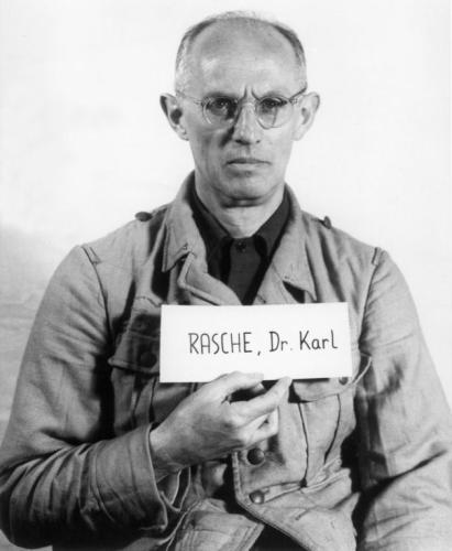 Karl Rasche (1892-1951) at the Nuremberg Trials. Rasche was SS-Obersturmbannführer and Dresdner Bank official, member "Freundeskreises Heinrich Himmler". This photograph of Rasche (probably as a defendant) was taken by US Army photographers on behalf of the Office of the U.S. Chief of Counsel for the Prosecution of Axis Criminality (OUSCCPAC, May 1945 - Oct. 1946) or its successor organization, the Office of Chief of Counsel for War Crimes (OCCWC, Oct. 1946 - June 1949).